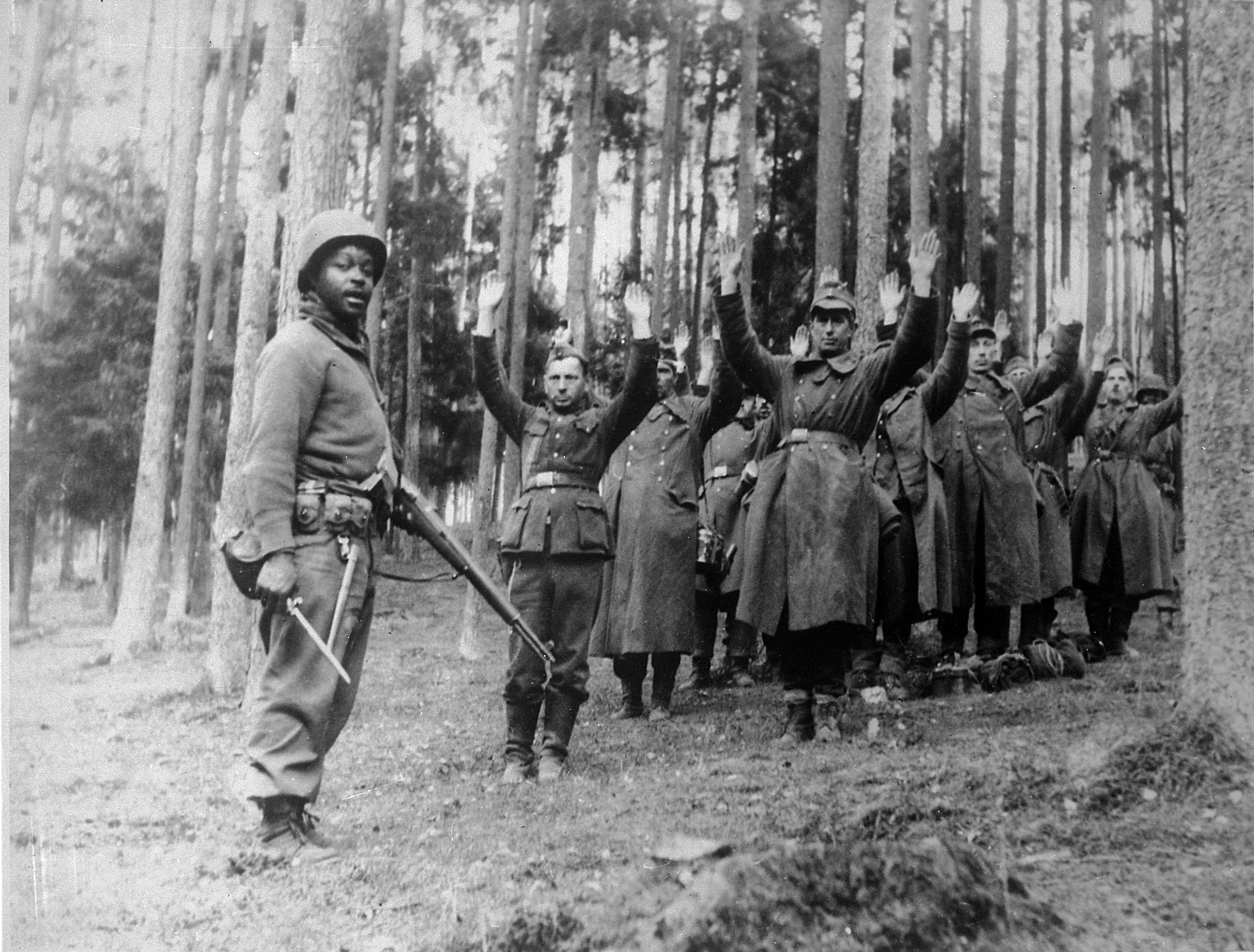 12th Armored Division black soldier of the 12th Armored Division stands guard over a group of Nazi prisoners, April 1945. W. B. Wilson 05:20, 19 February 2007 (UTC)